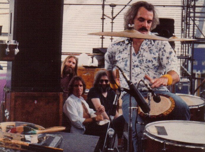 Boulder, Colorado concert, Bill Kreutzmann playing the talking drum.